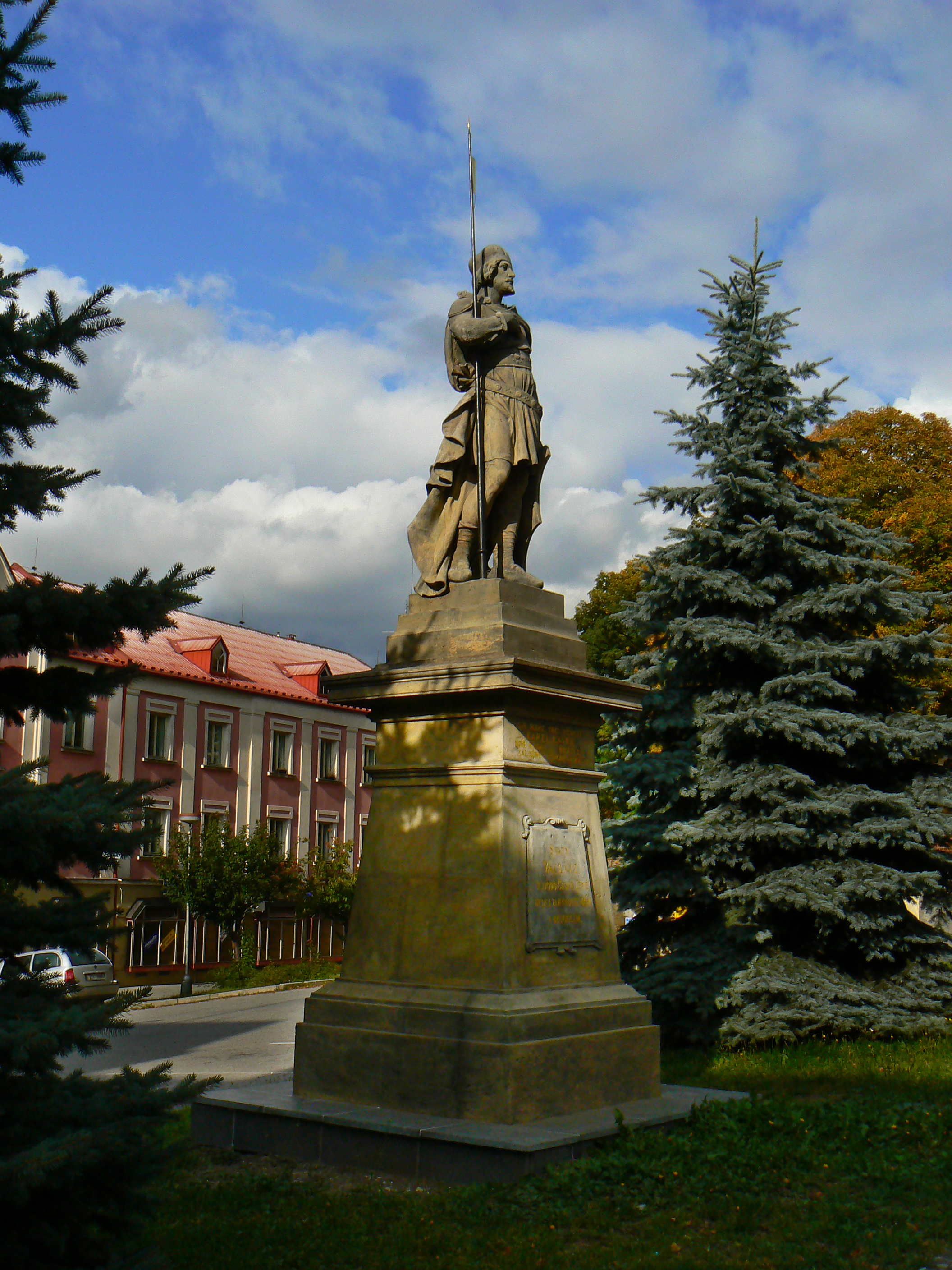 Saint Wenceslaus statue in Mlada Vozice, Czech Republic